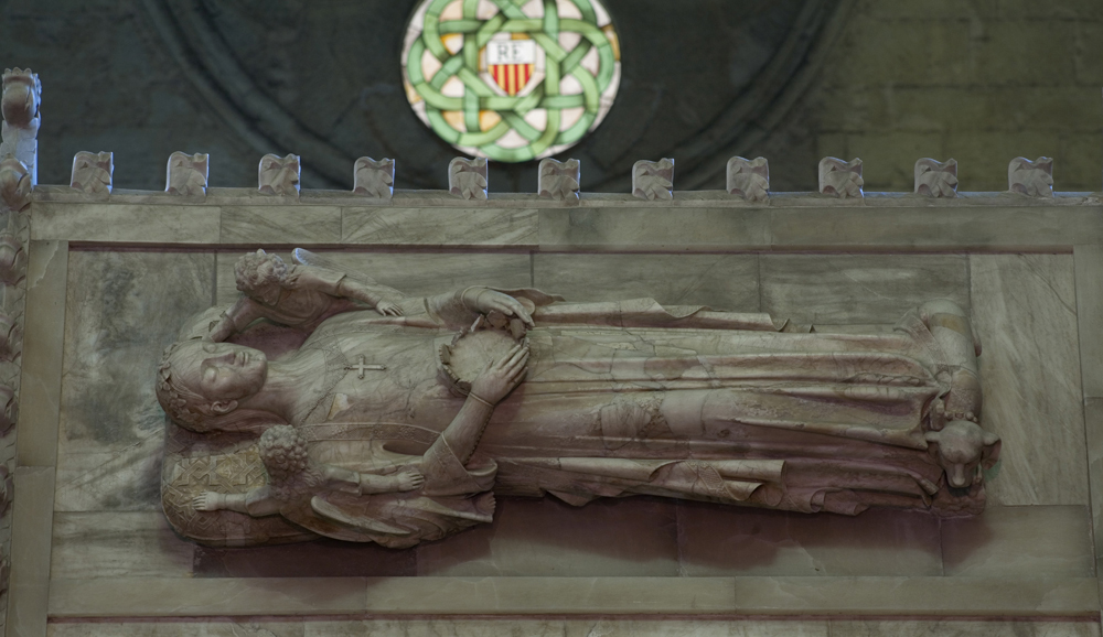 Martha of Armagnac